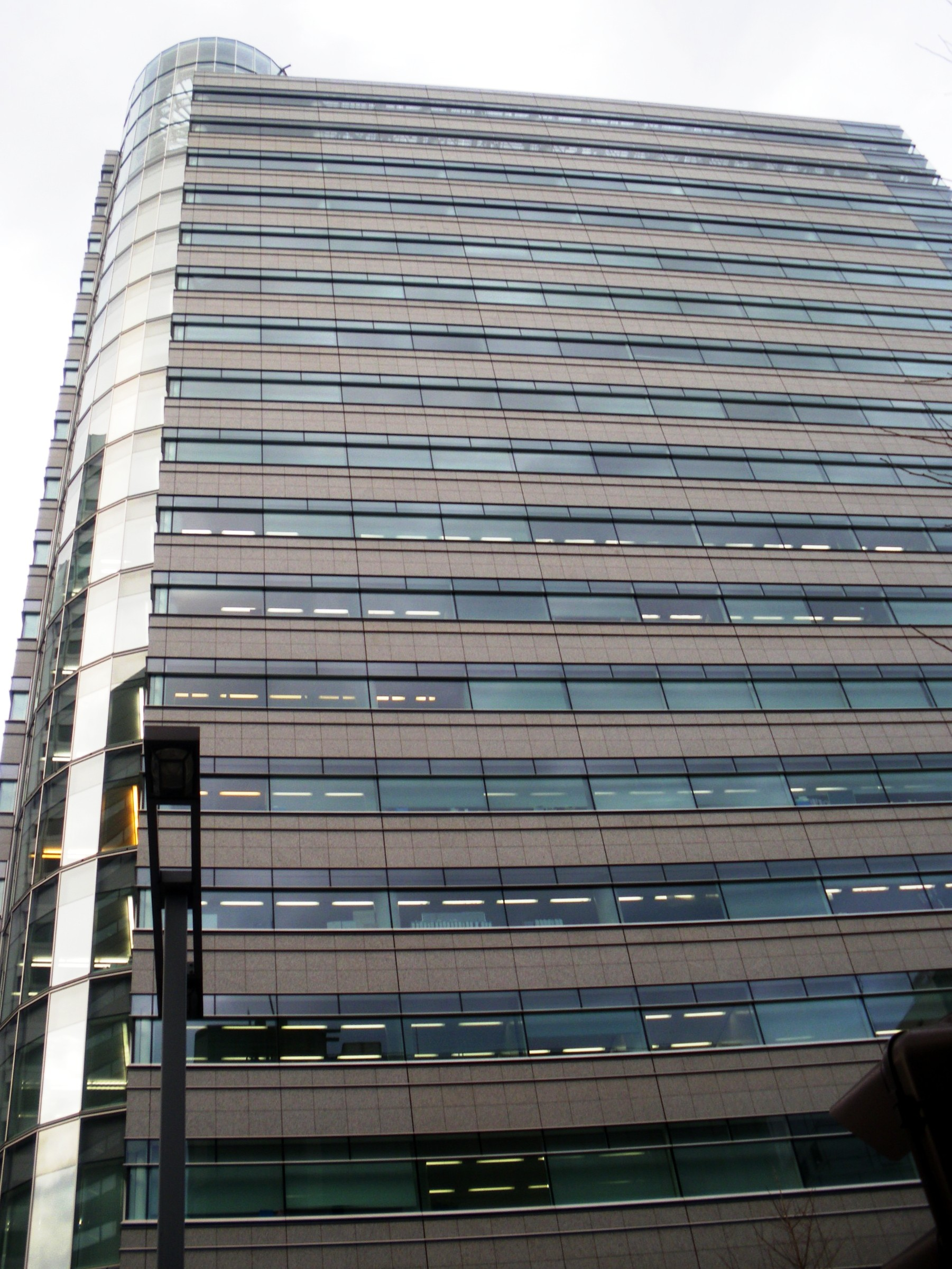 photo of Shinjuku first west ,one of the skyscrapers in Shinjuku,Tokyo,Japan.